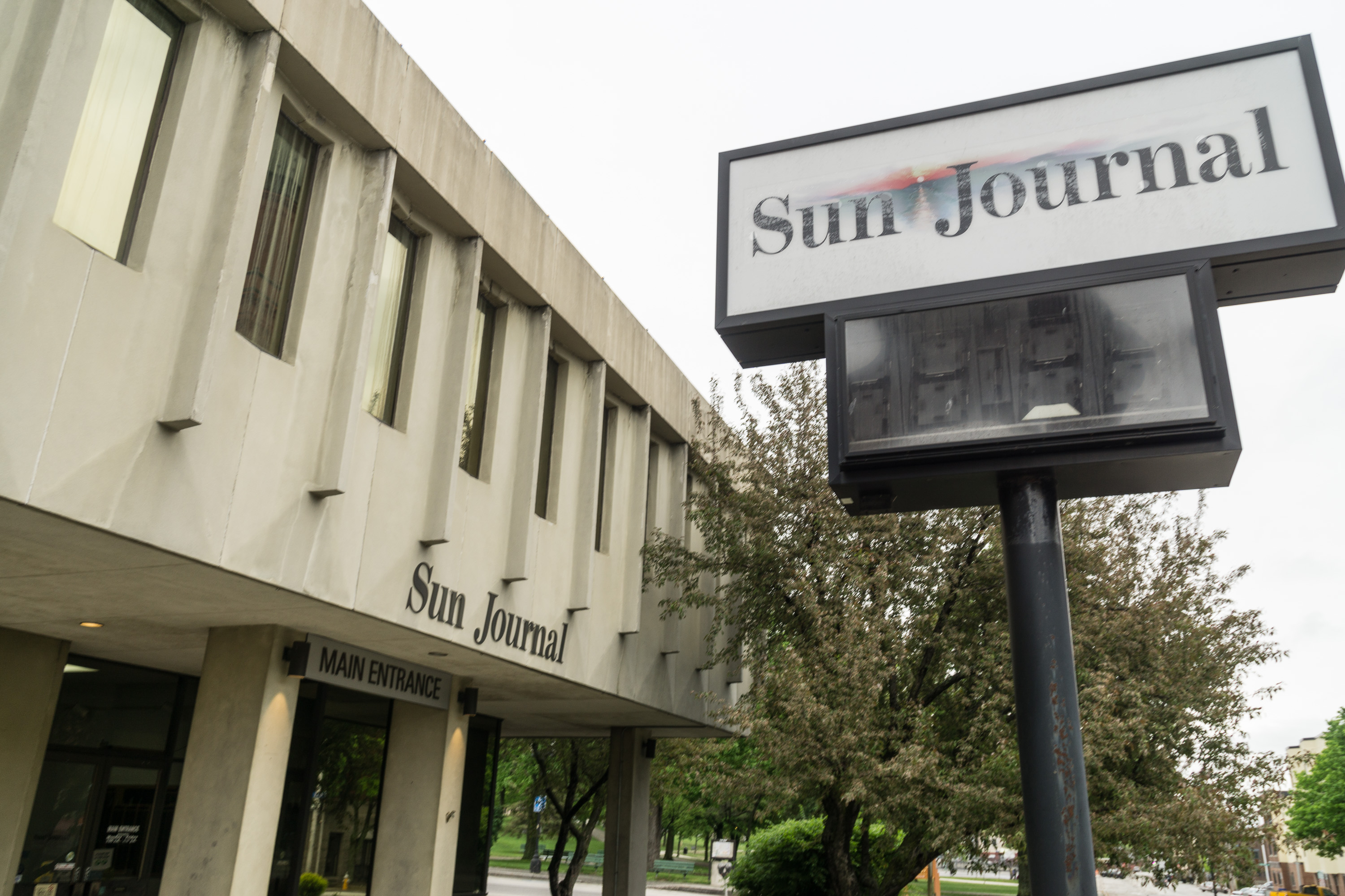 Sun-Journal office, 104 Park Street, Lewiston, Maine. The Sun-Journal is the daily newspaper of Lewiston-Auburn.